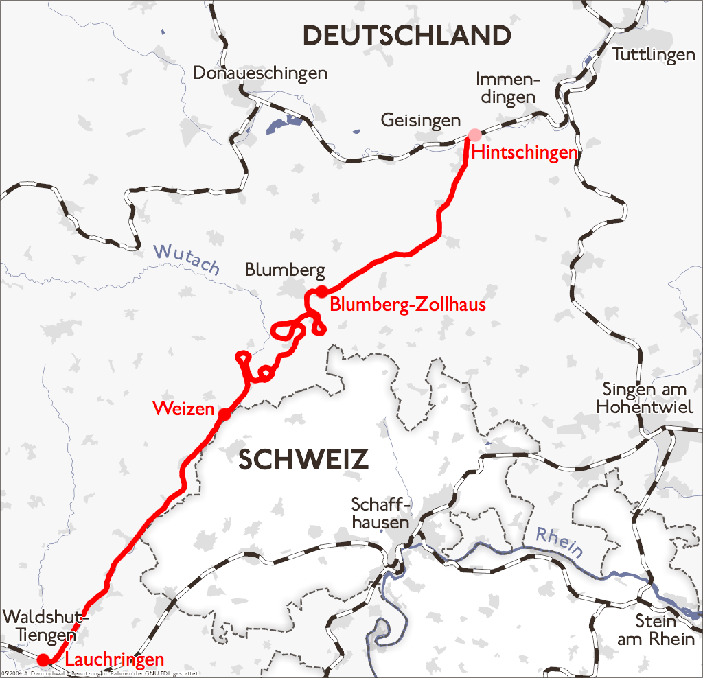 Map of the Lauchringen–Hintschingen railway line, also known as Wutach Valley Railway